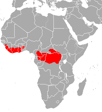 Distribution map of the lowland Bongo antelope.